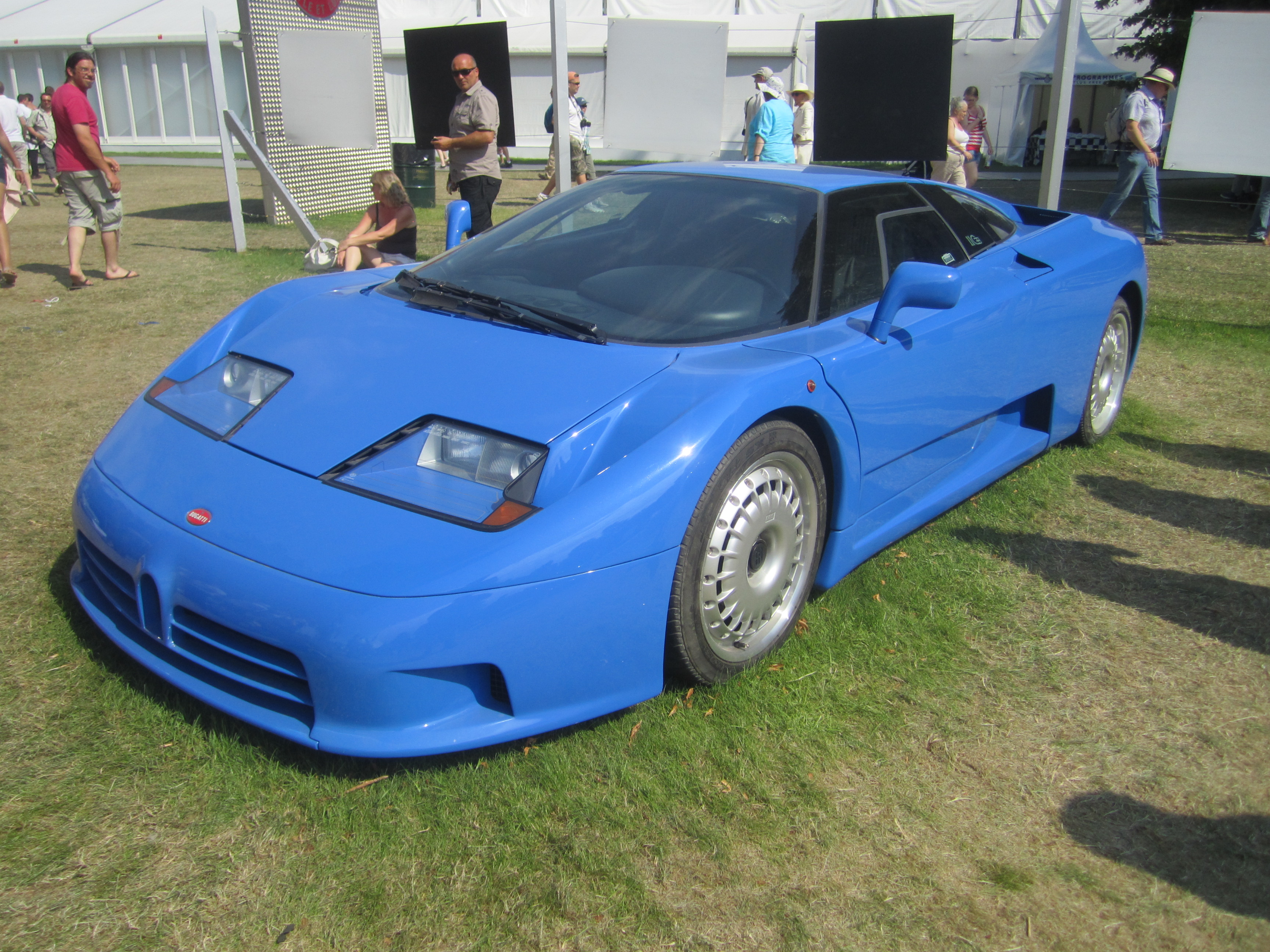 Quad turbo 3.5 litre V12 Taken at the Goodwood Festival of Speed England 2011-Cartier Style Et Luxe Concours D'elegance